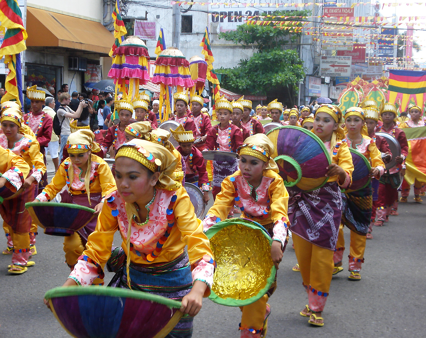 Street dancing competition, part of Kadayawan Festival celebration.